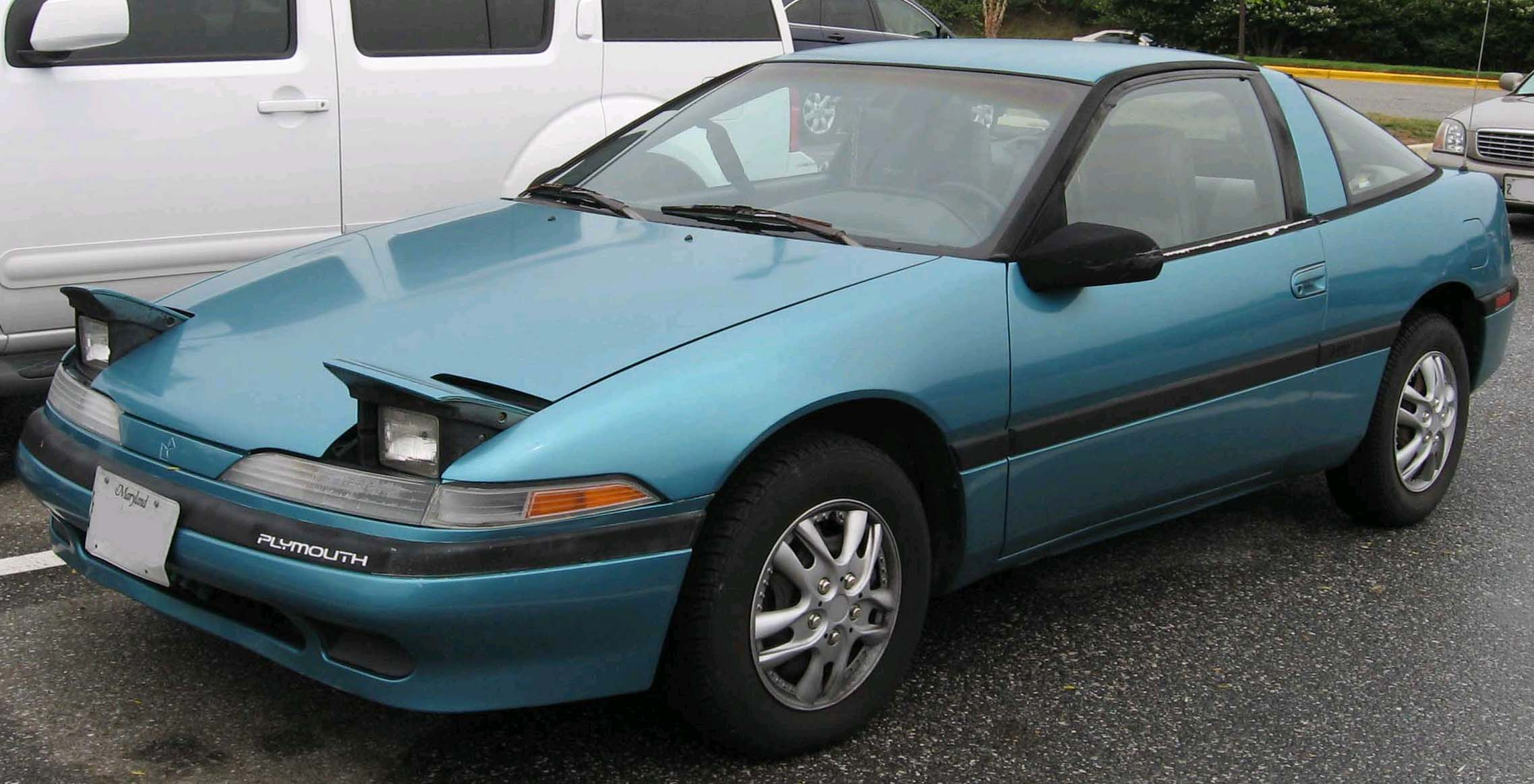 1990-1991 Plymouth Laser photographed in USA.